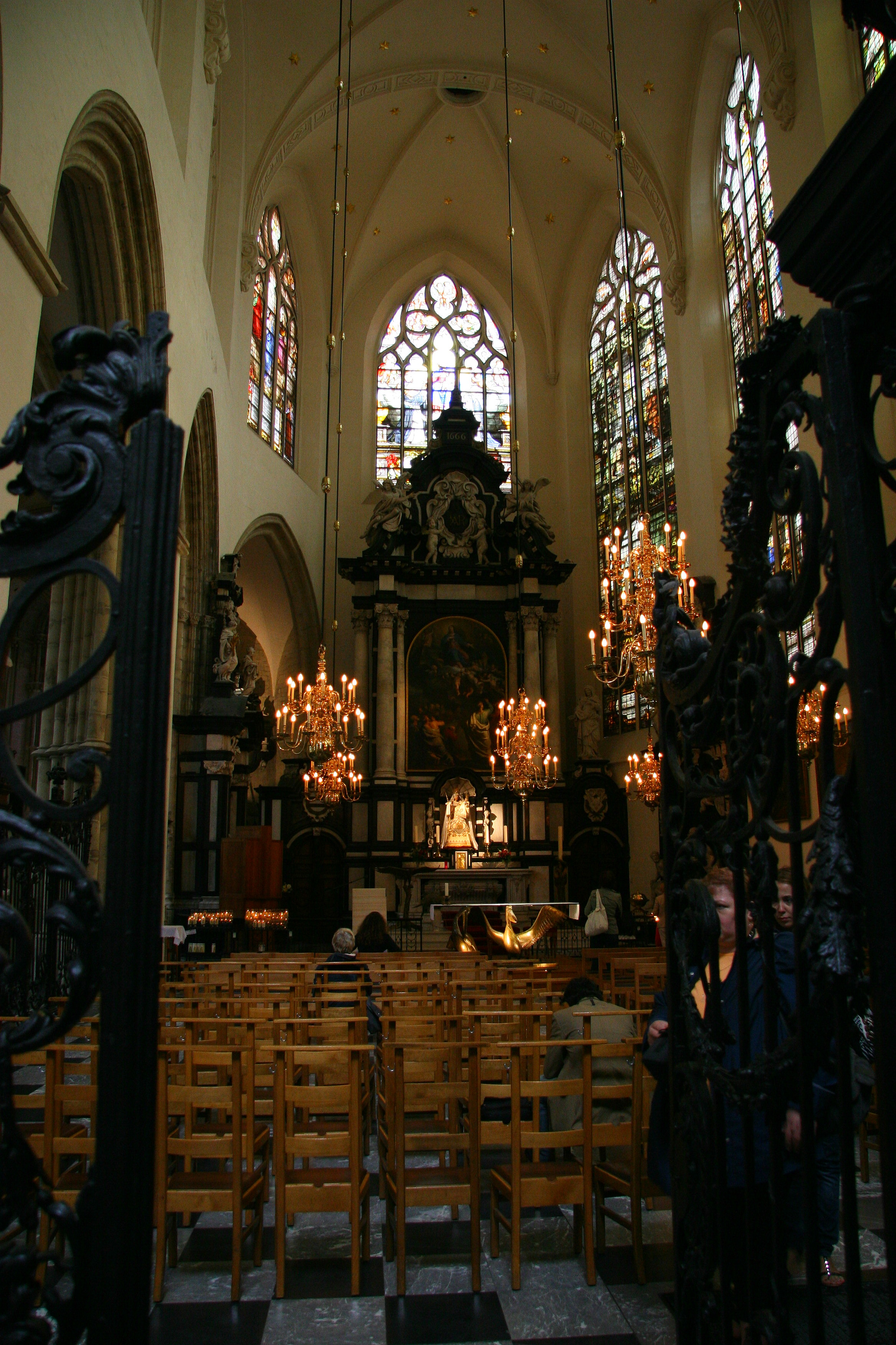 The entrance of the Lady Chapel, also known as "the Chapel of Our Lady of Deliverance" of the St. Michael and Gudula cathedral in Brussels. The chapel was built between 1649 - 1655 for Infanta Isabella in Baroque style.